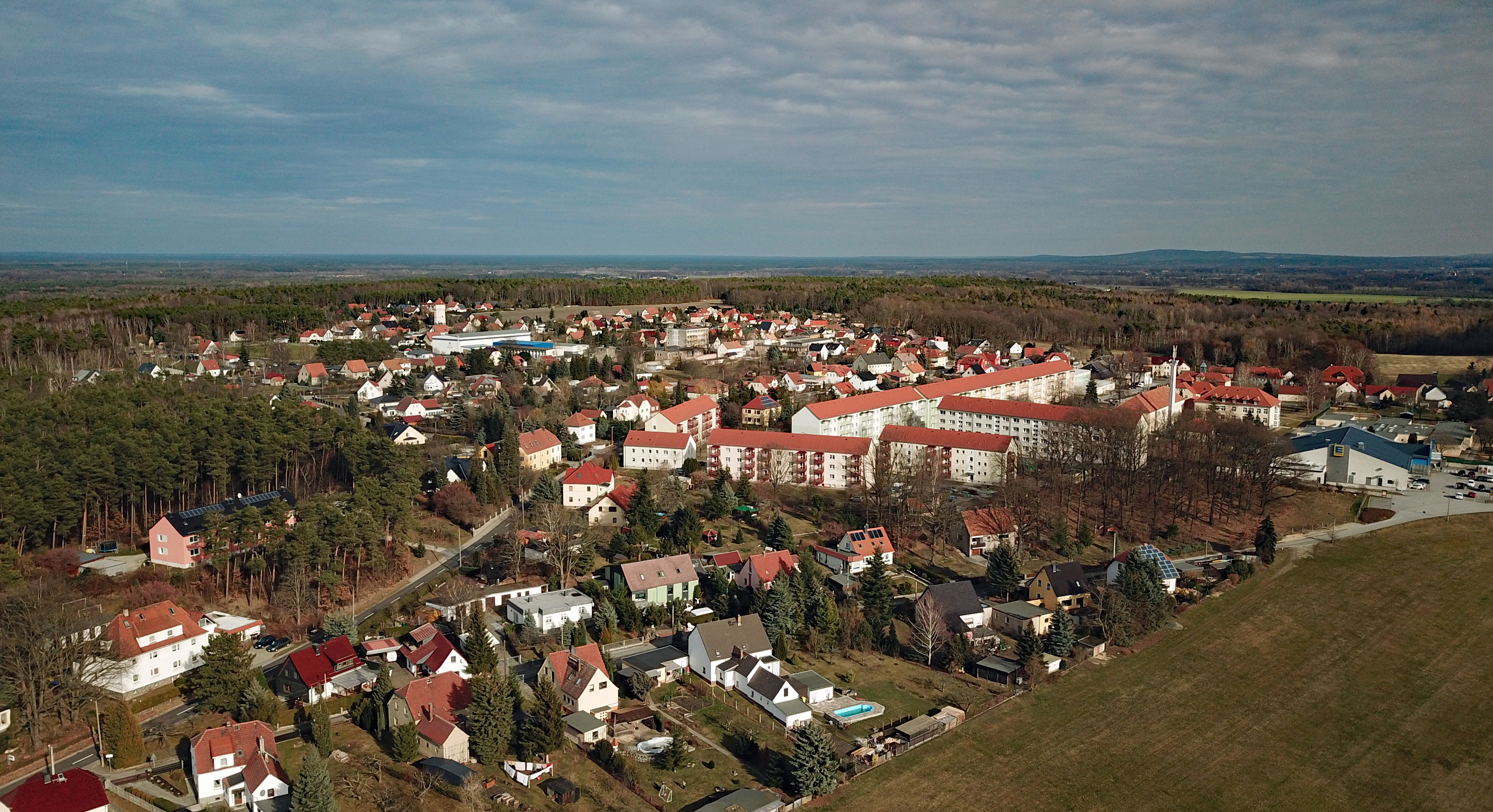 Großdubrau, Saxony, Germany Hornjoserbsce: Powětrowy wobraz Wulkeje Dubrawy